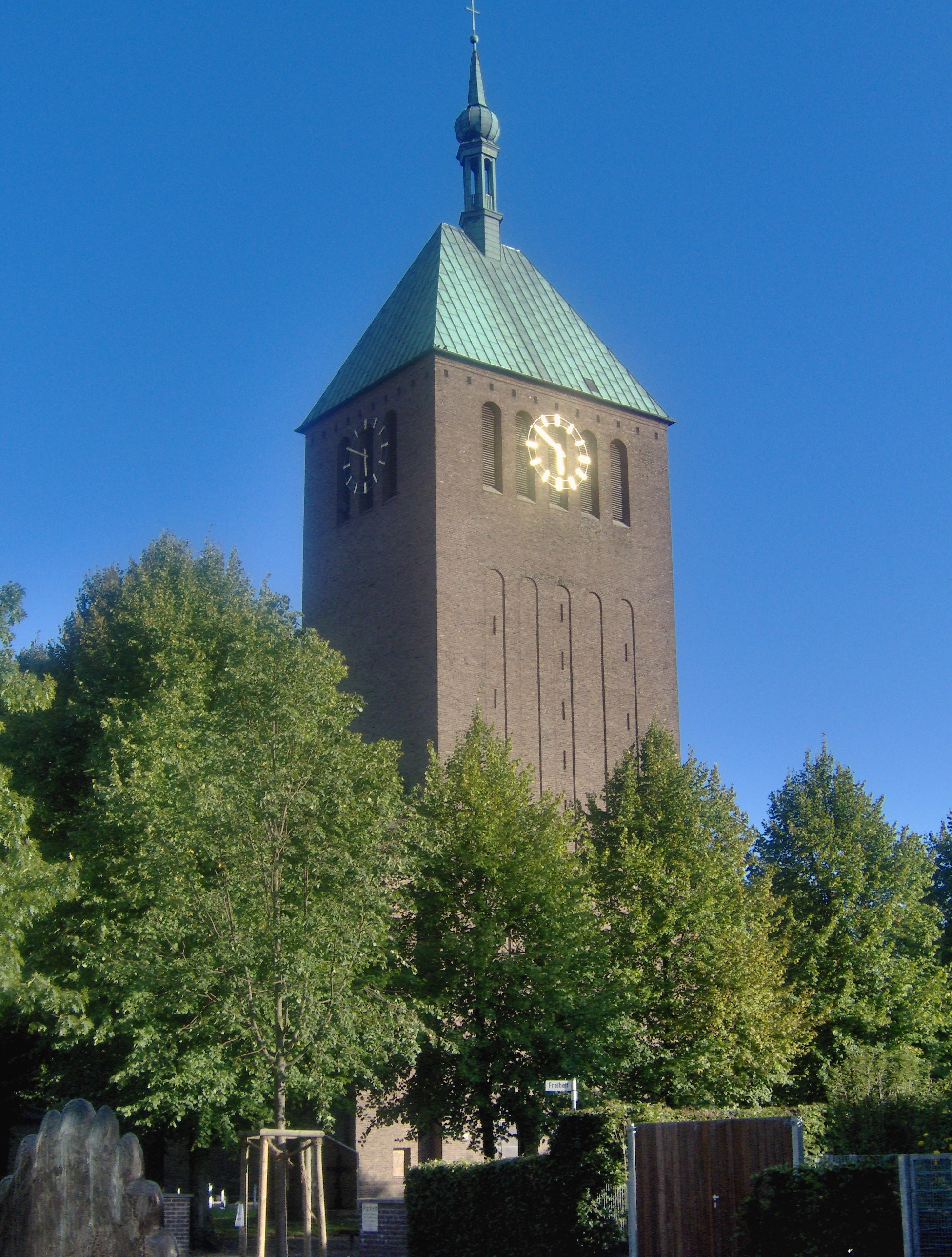 The catholic church Sankt Georg in Vreden in North Rhine-Westphalia, Germany